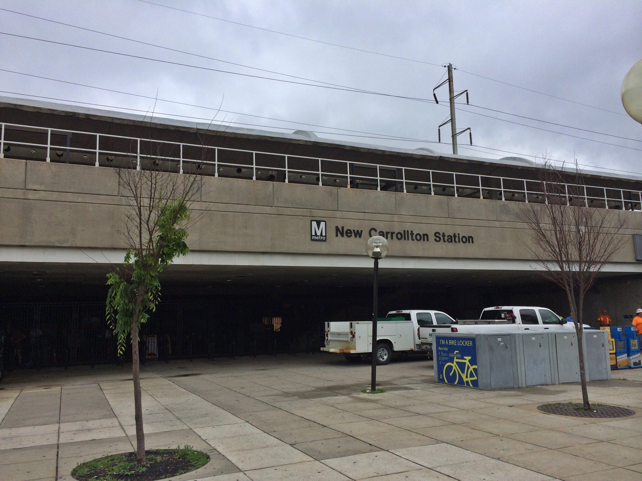 Exterior of New Carrollton Metro Station, Maryland